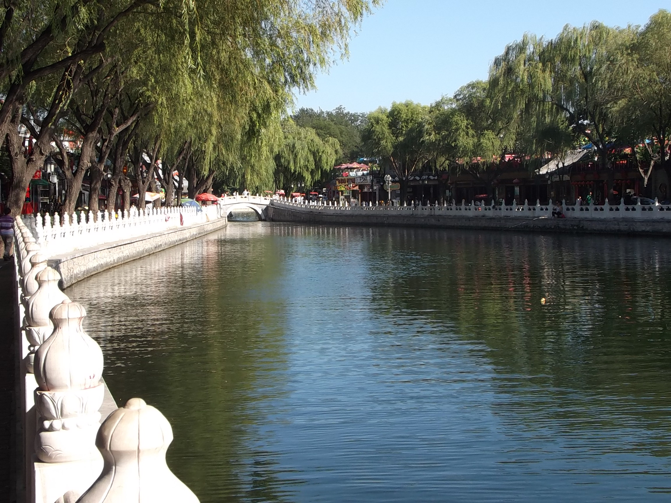 Houhai Lake, Beijing, 4.9.2014